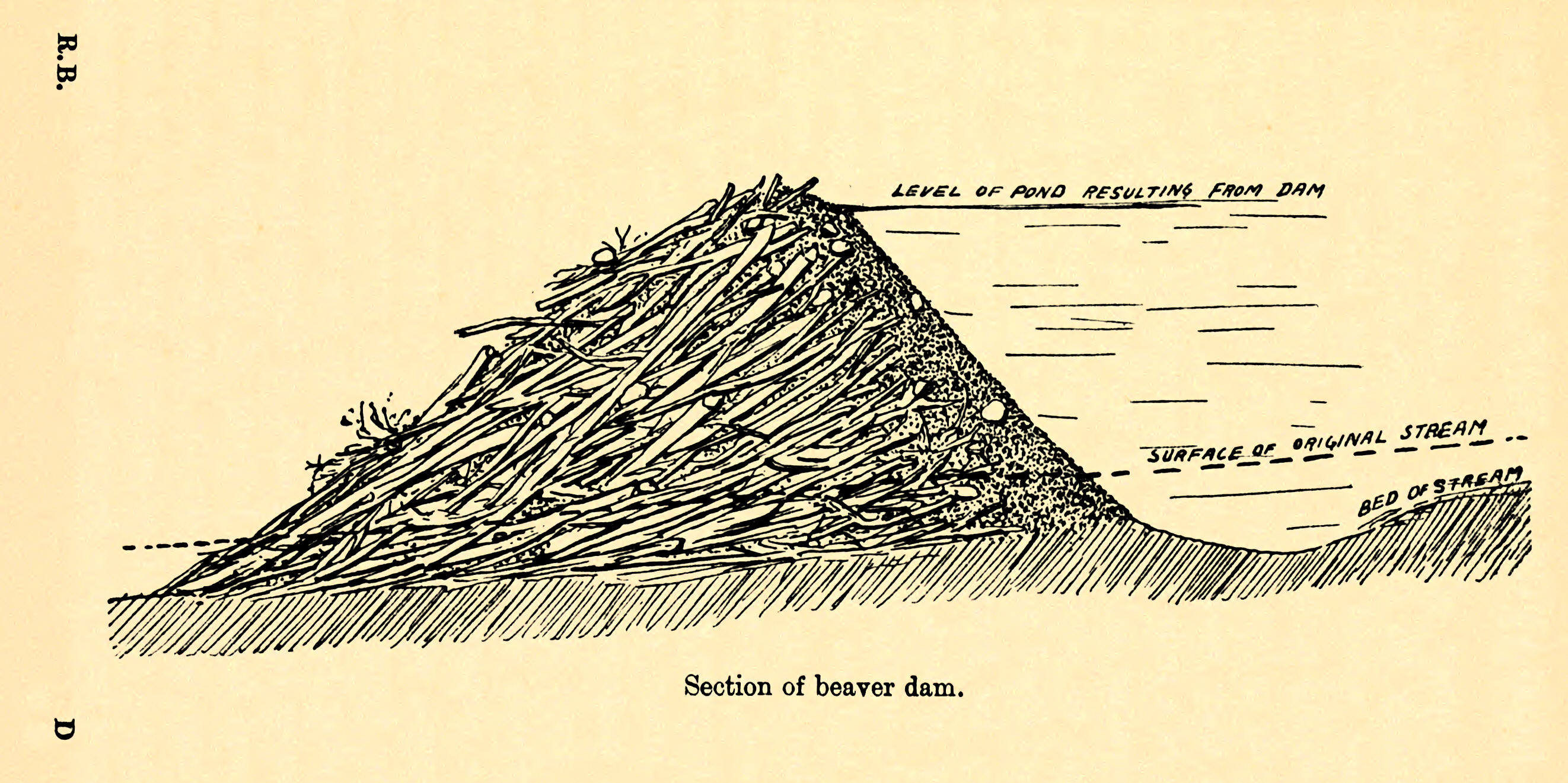 Illustration from the book The romance of the beaver; being the history of the beaver in the western hemisphere by Dugmore, Arthur Radclyffe, 1914.